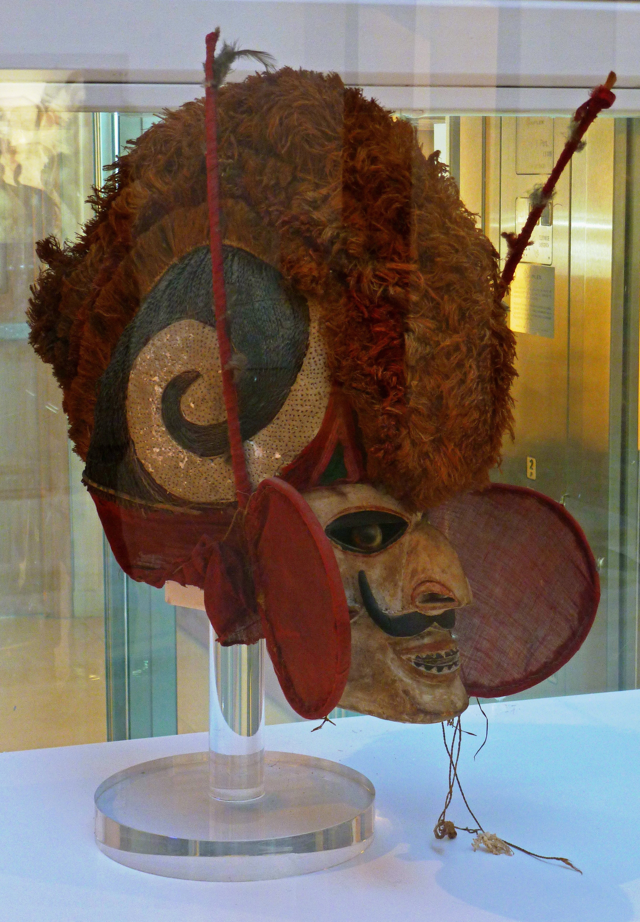 Tatanua, Malanggan mask